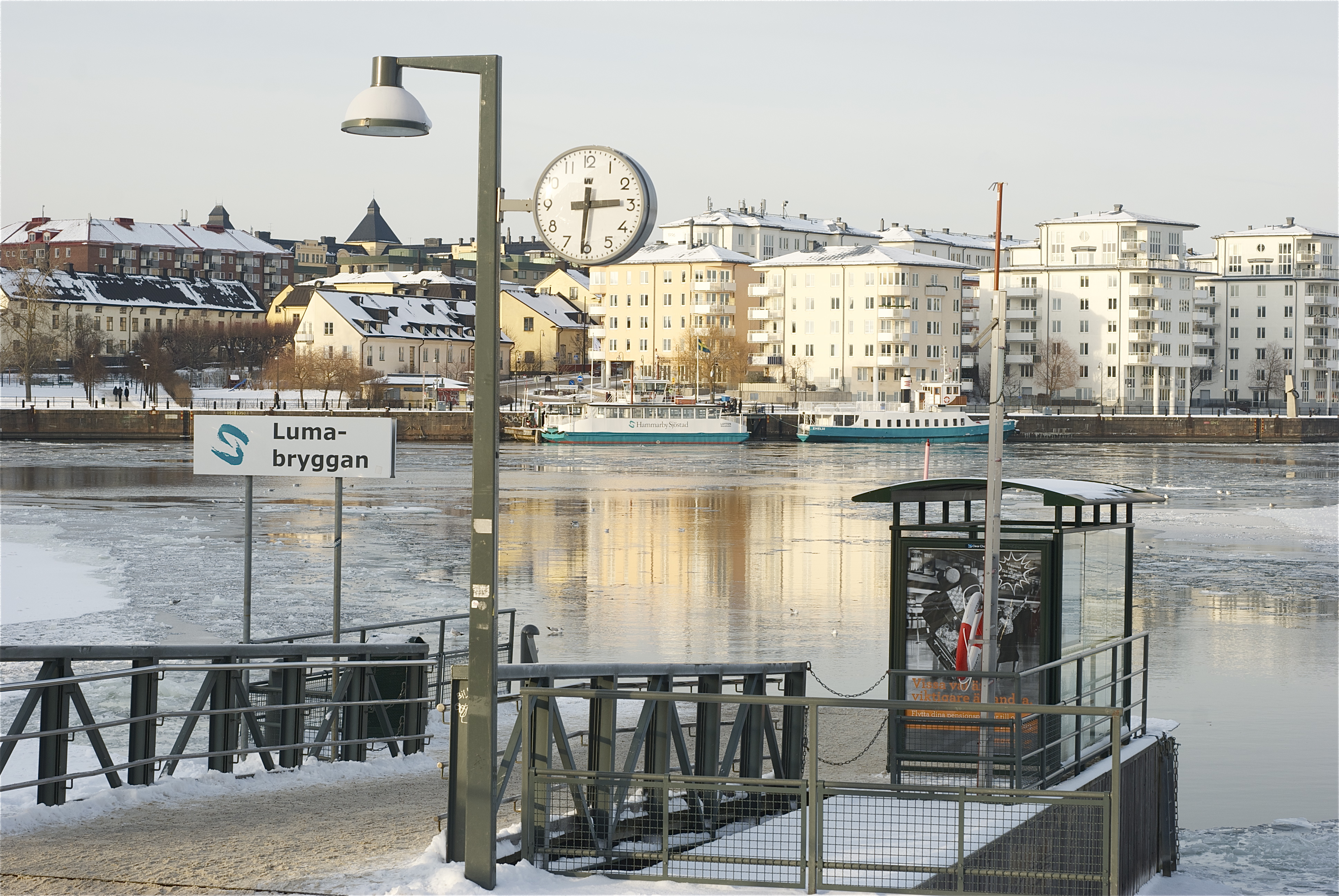 Luma jetty (Lumabryggan).